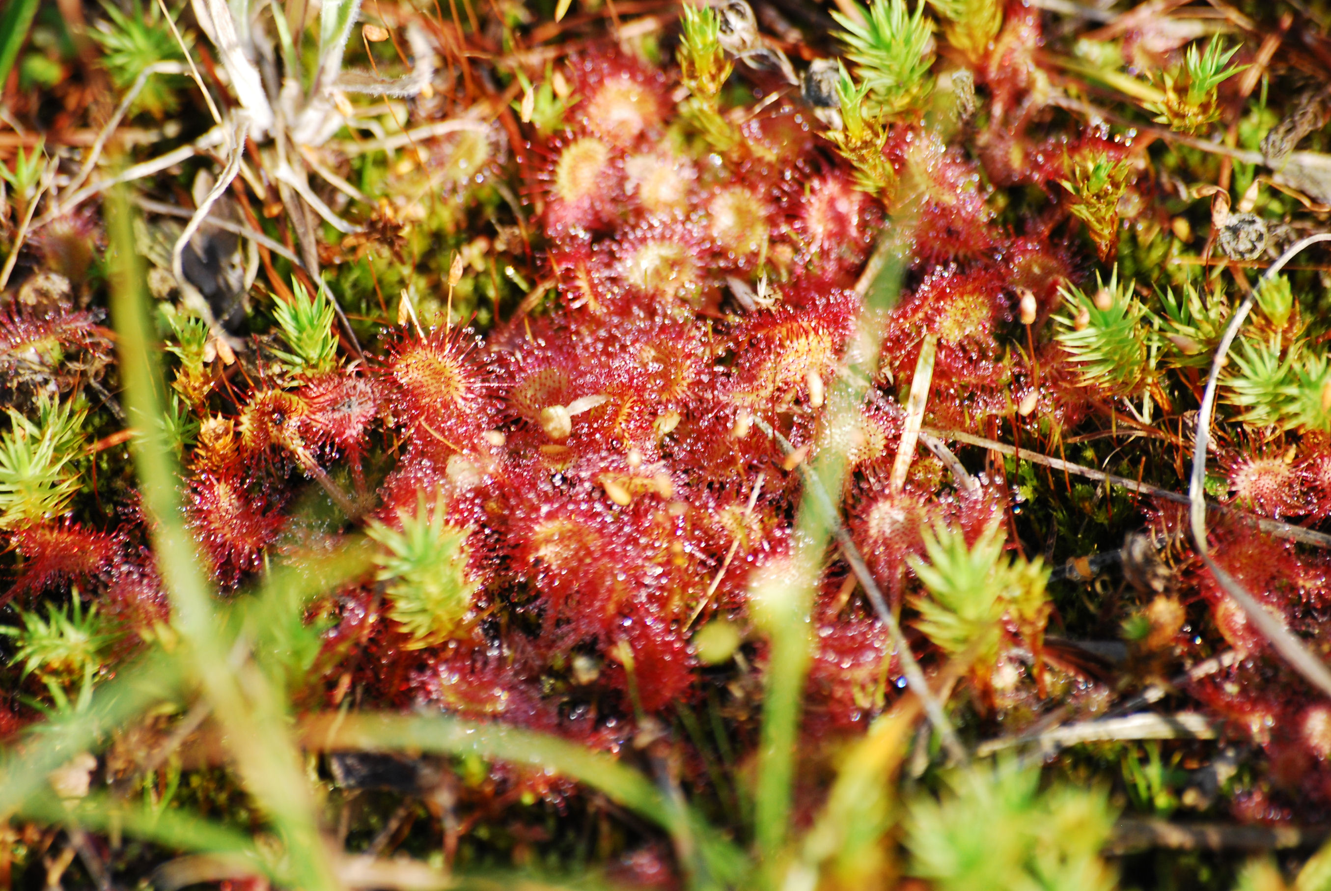 Drosera rotundifolia in Bornholm in Dueodde